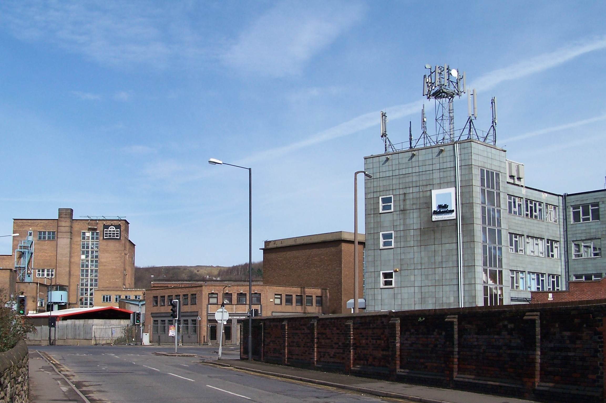 Cannon Brewery and former Head Office, Neepsend, Sheffield. The Brewery buildings are in the background and can be seen in more detail by following this link and other links from that picture: 1778394. The building in the foreground was built in the mid 1950s and was the Brewery head office until closure. At one stage the front carried the words "Stones Ales" in large letters. Follow this link for a picture in the Crich Museum Collection: . The building has been used by Wells Richardson - Chartered Accountants - since 1985. Thanks go to Wells Richardson's Adrian Ostrowski, who kindly helped me with these details and told me about the Crich Museum Photograph. Follow this link to see this junction complete with traffic: 1802595, and this link for another view: 1802574